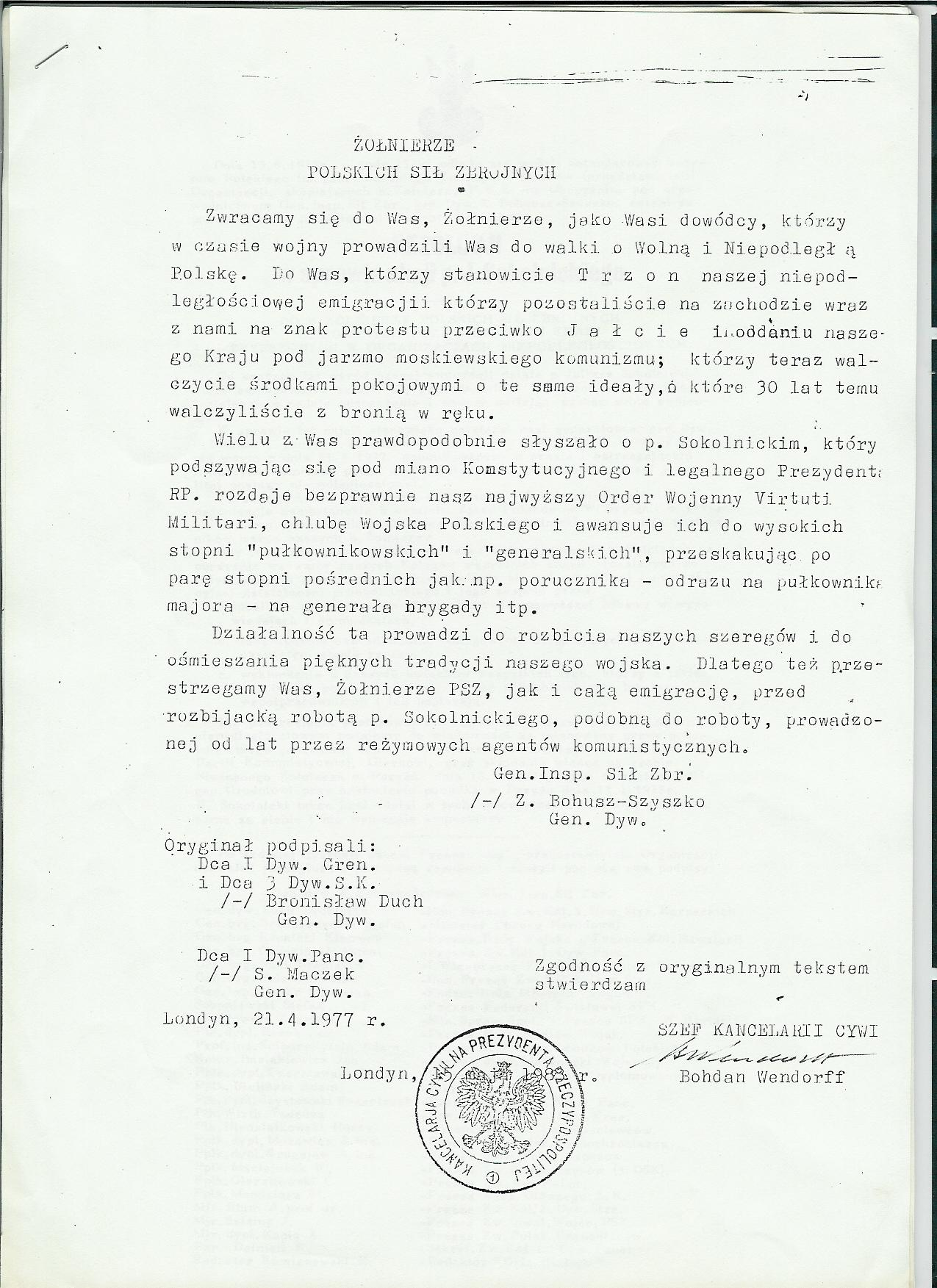 The original document of generals Bohusz-Szyszko, Duch and Maczeks' appeal regarding Sokolnicki